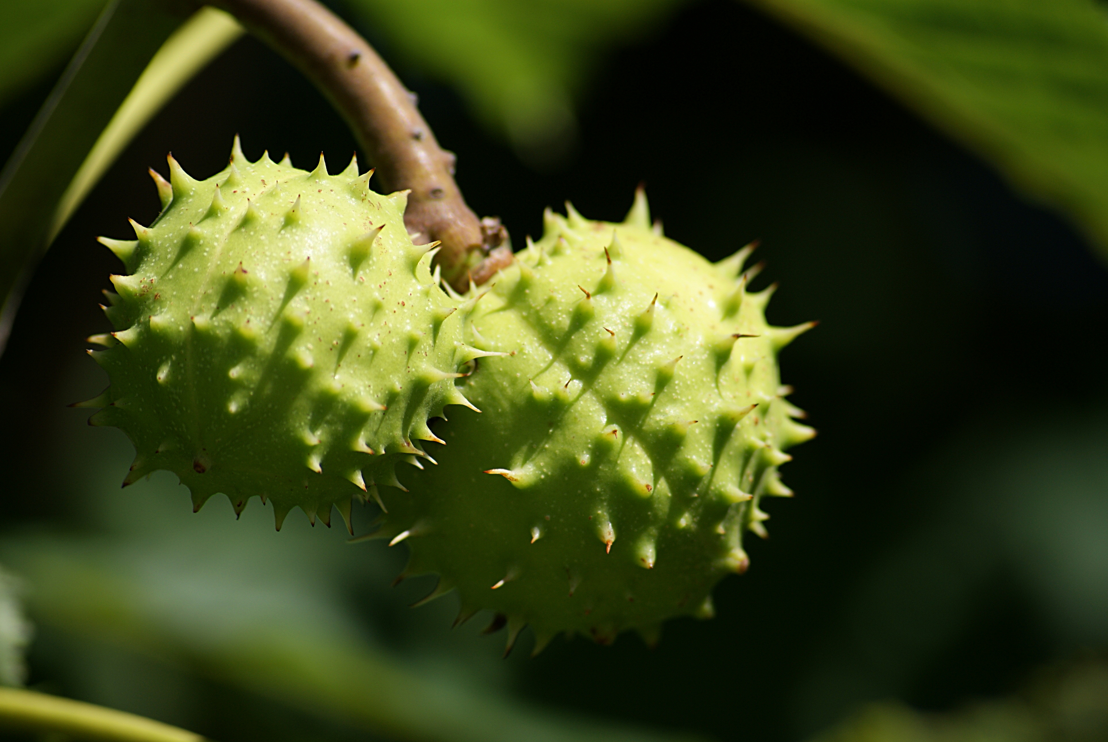 2 fruits on Aesculus hippocastanum (Horse-chestnut), photographed in Karlstad, Sweden